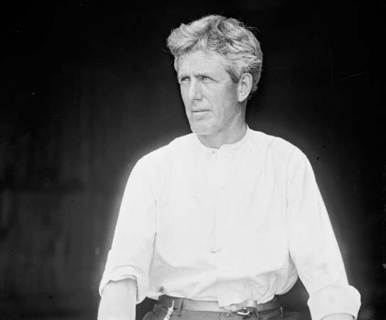 Hiram Boardman Conibear circa 1910